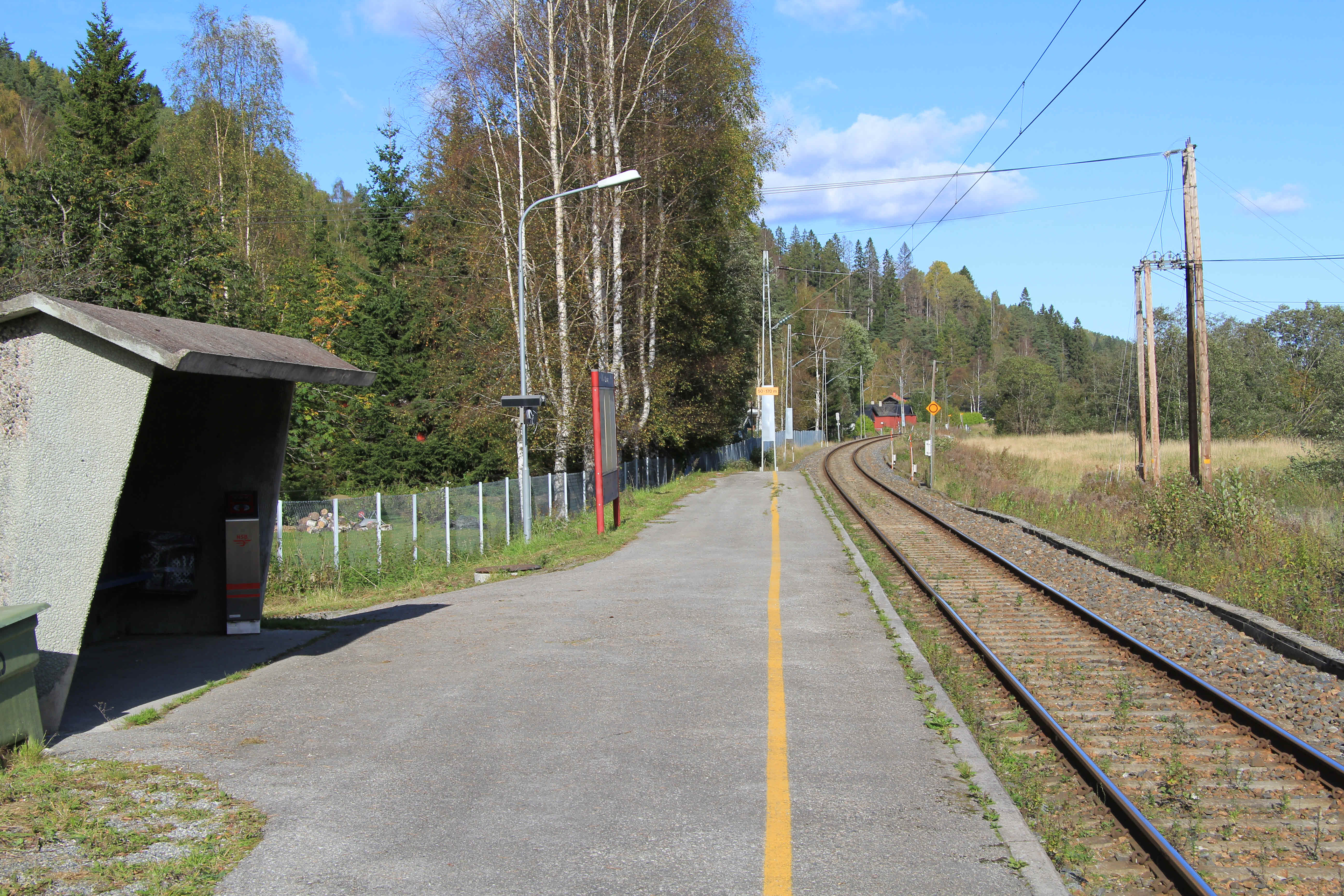 Hallenskog Train stop at Spikkestadbanen. Hallenskog is located in Røyken, Buskerud, Norway. View towards north and Heggedal.